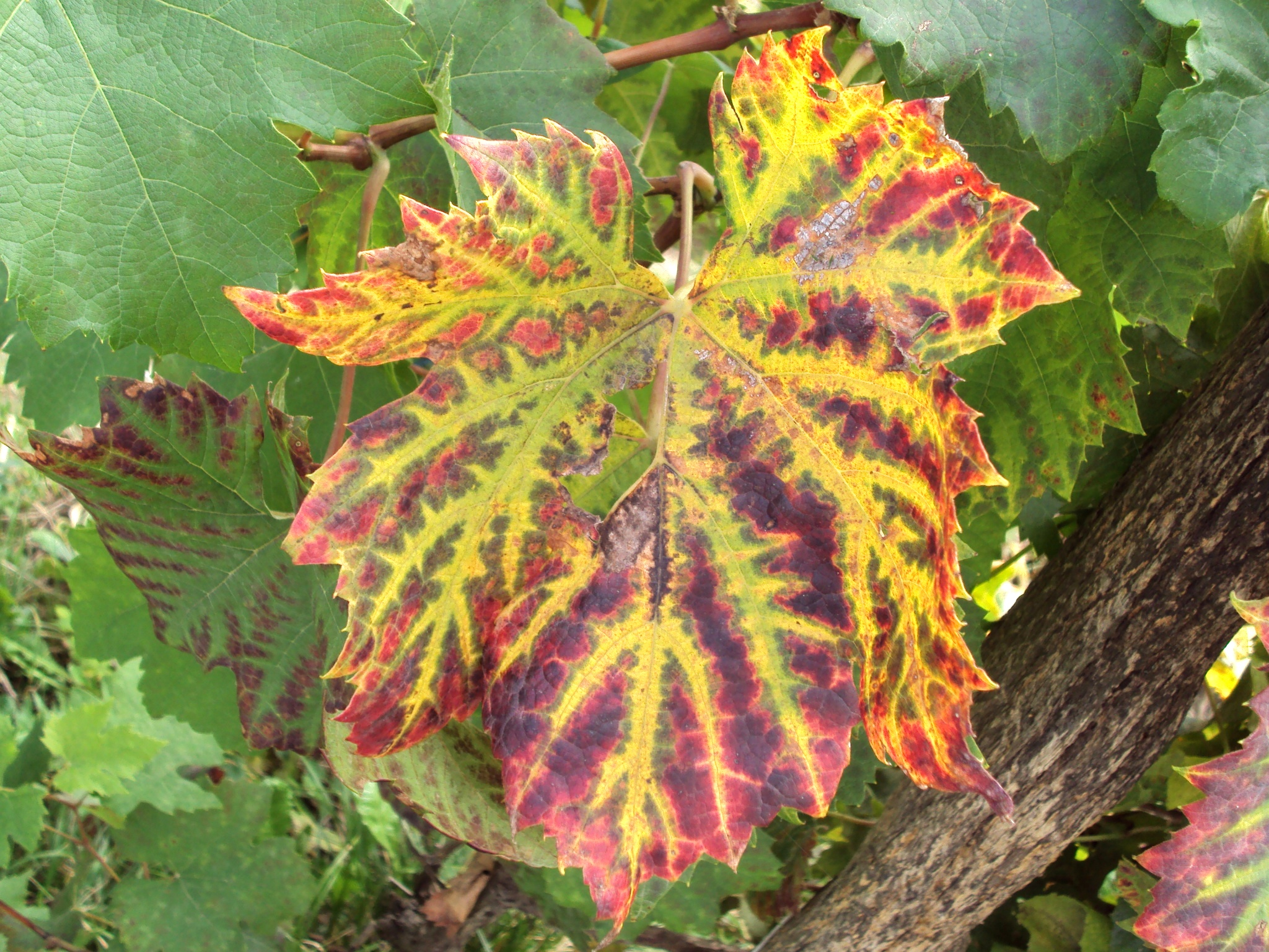 Leof of Vitis (grapevine) in autumn, Bulinac, Croatia